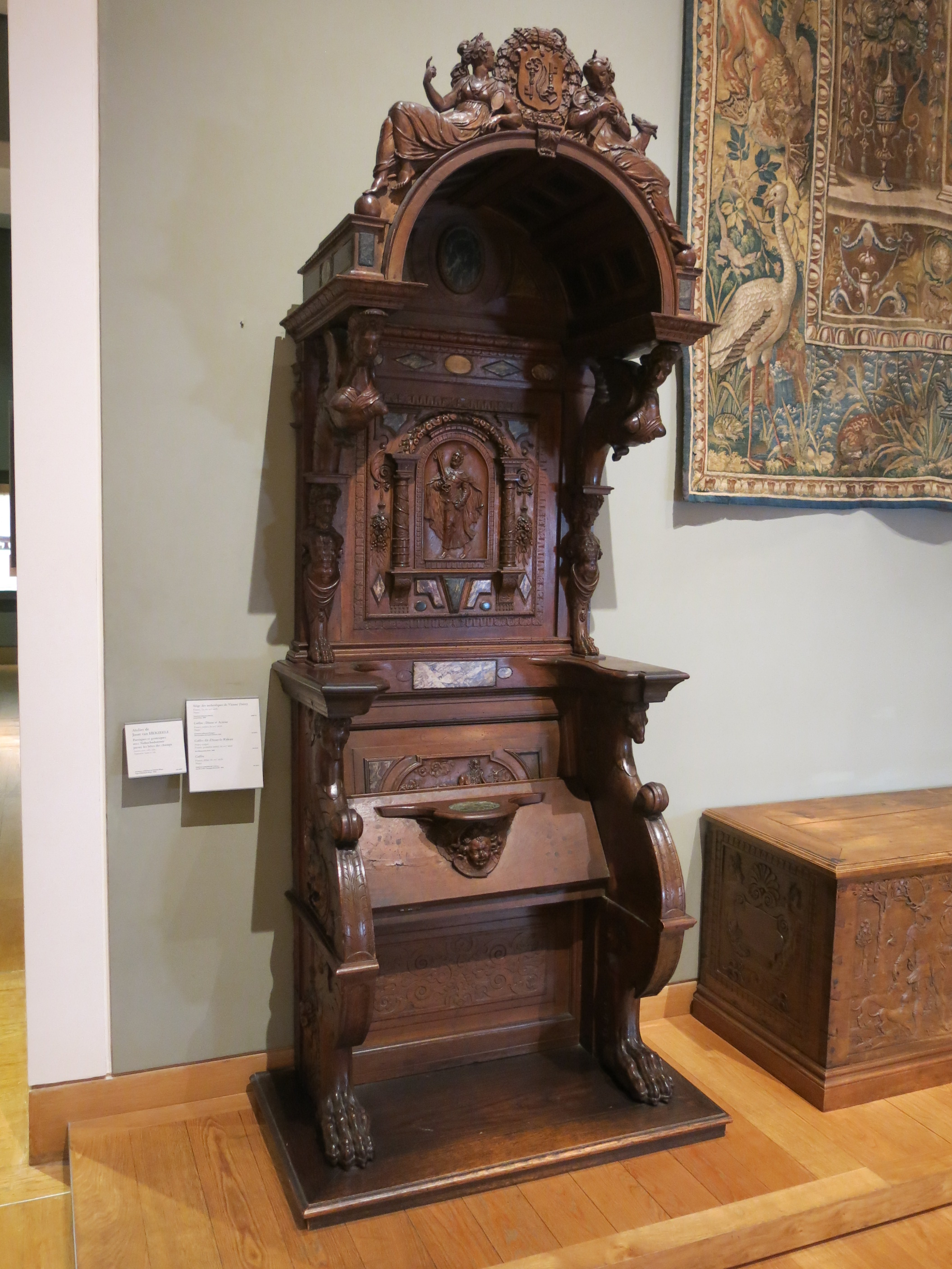 Seat of the archbishops of Vienne (Isère, France). Walnut wood. End of the 16th century. Révoil collection. Purchase 1828. Louvre museum (Paris, France).